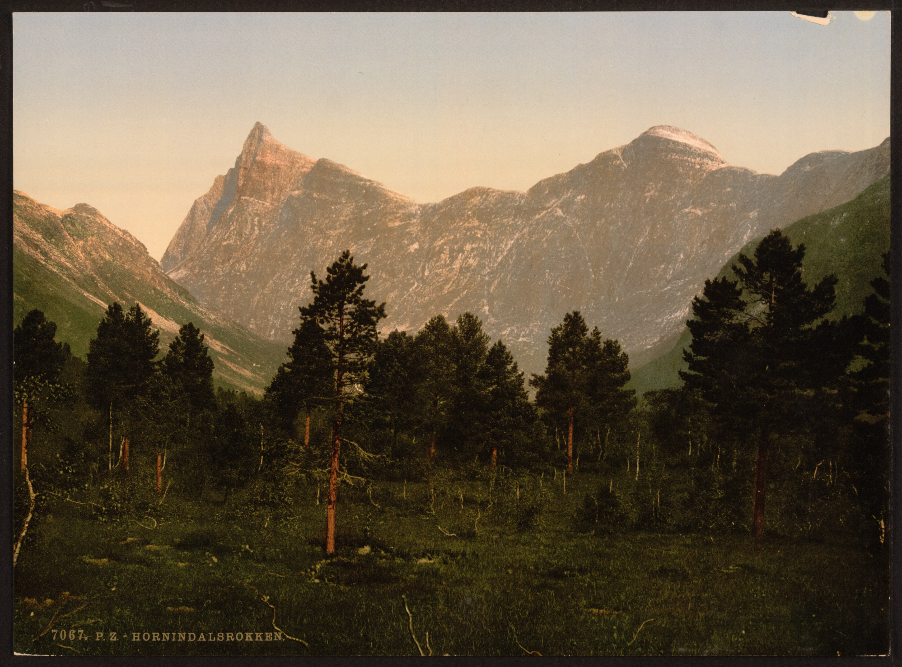 Print shows Hornindalsrokken, a mountain in the Sunnmørsalpene mountain range, Norway. (Source: Flickr Commons project, 2009)